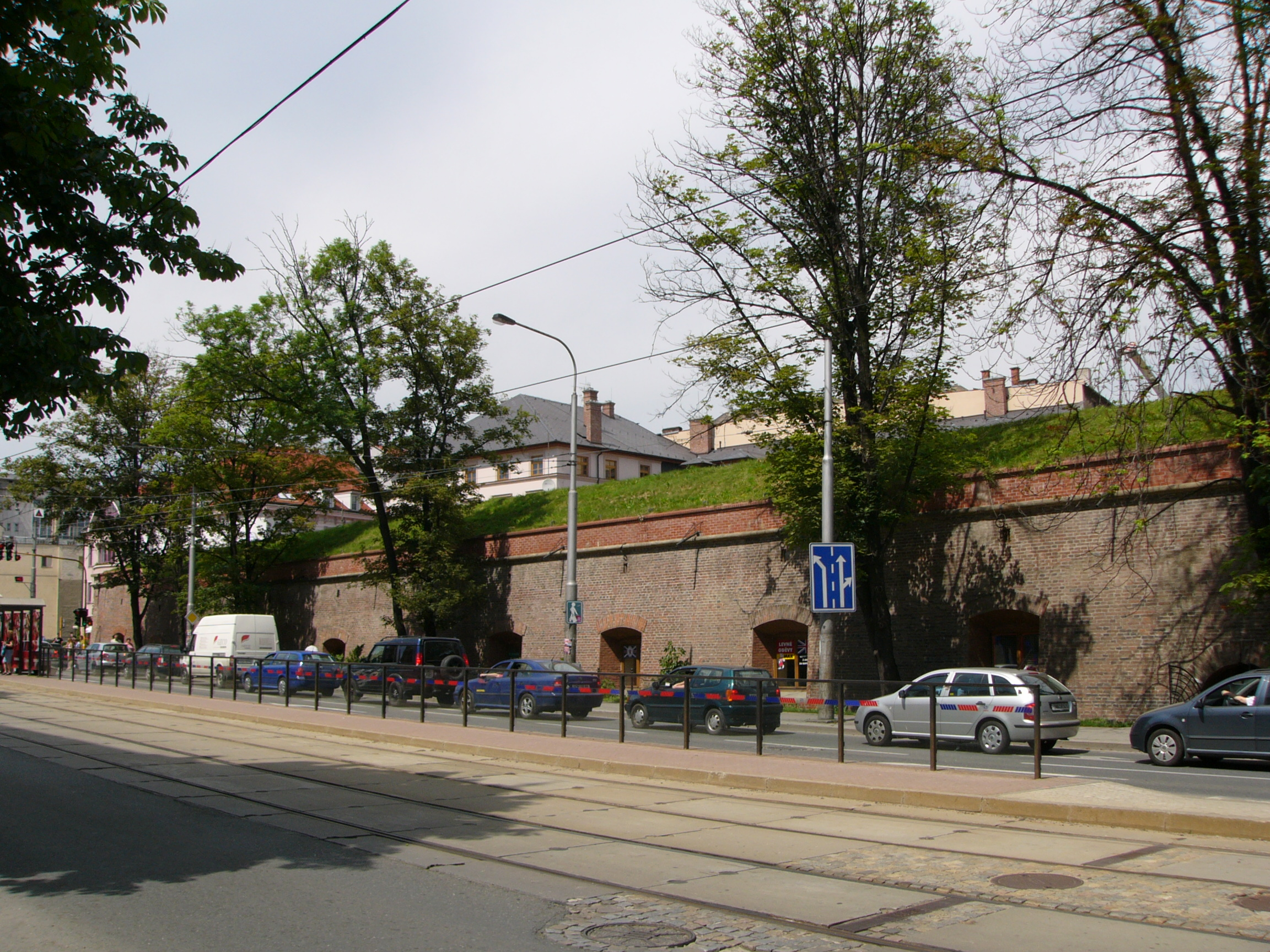 Casemate in Olomouc (Czech Republic).